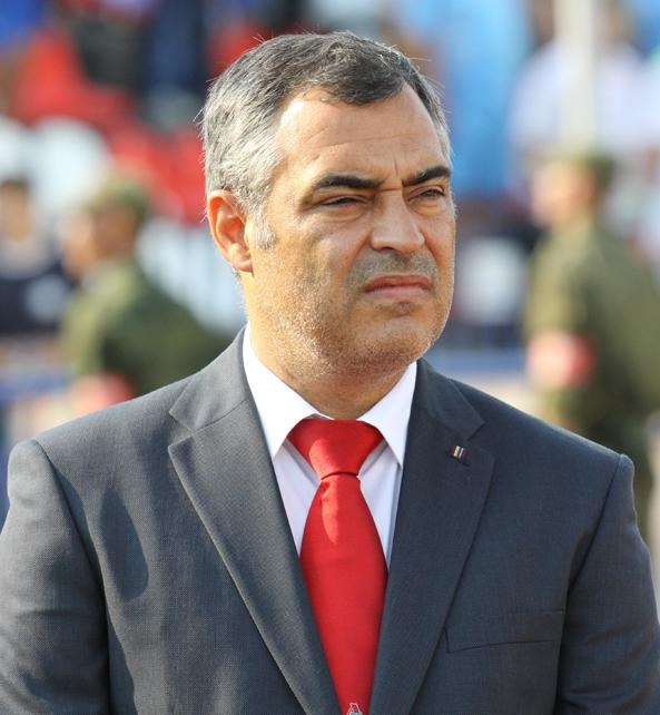 Jose Couceiro coaching Lokomotiv Moscow